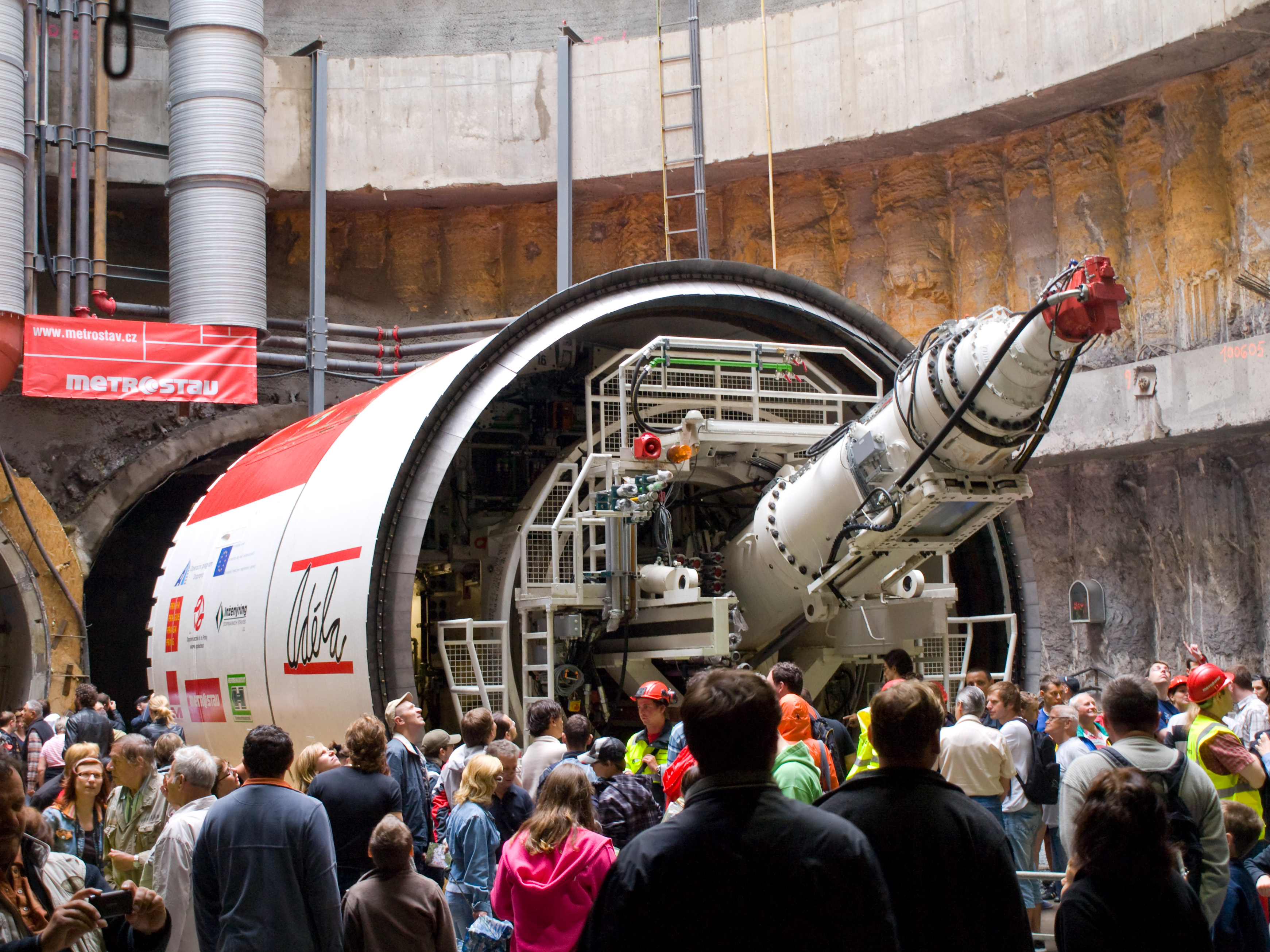 Open doors day in Vypich metro construction site of new section V.A metro, Prague 6